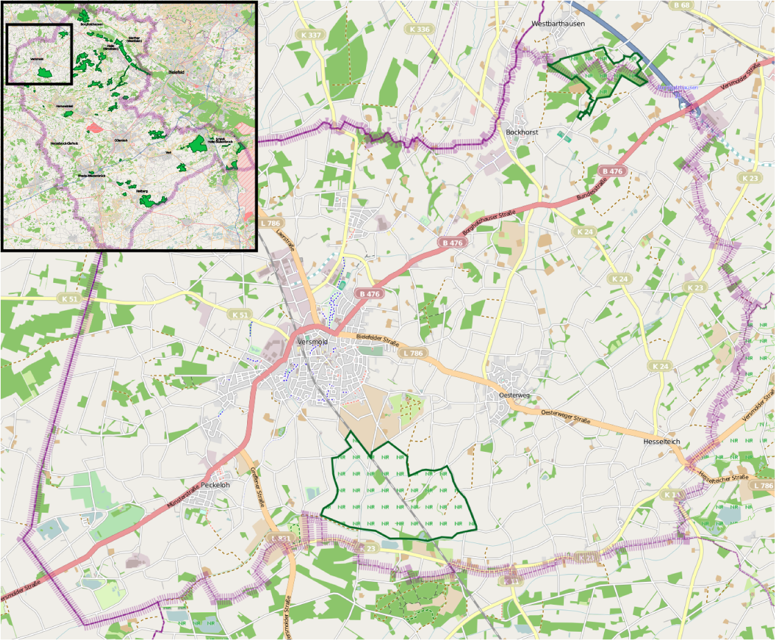 Nature reserves in Versmold - overview map Number and borders of nature reserves are subject to frequent change. In order to facilitate reproduction of this map from openstreetmap, the following data is stored here: export boundaries: north: 52.095; west: 8.07 south: 51.995; east: 8.267 mapnik svg, scale 1:70.000 nature reserve boundary stroke weight 3.5; nature reserve stroke color: R 5, G 102, B 36; district border stroke weight: 20